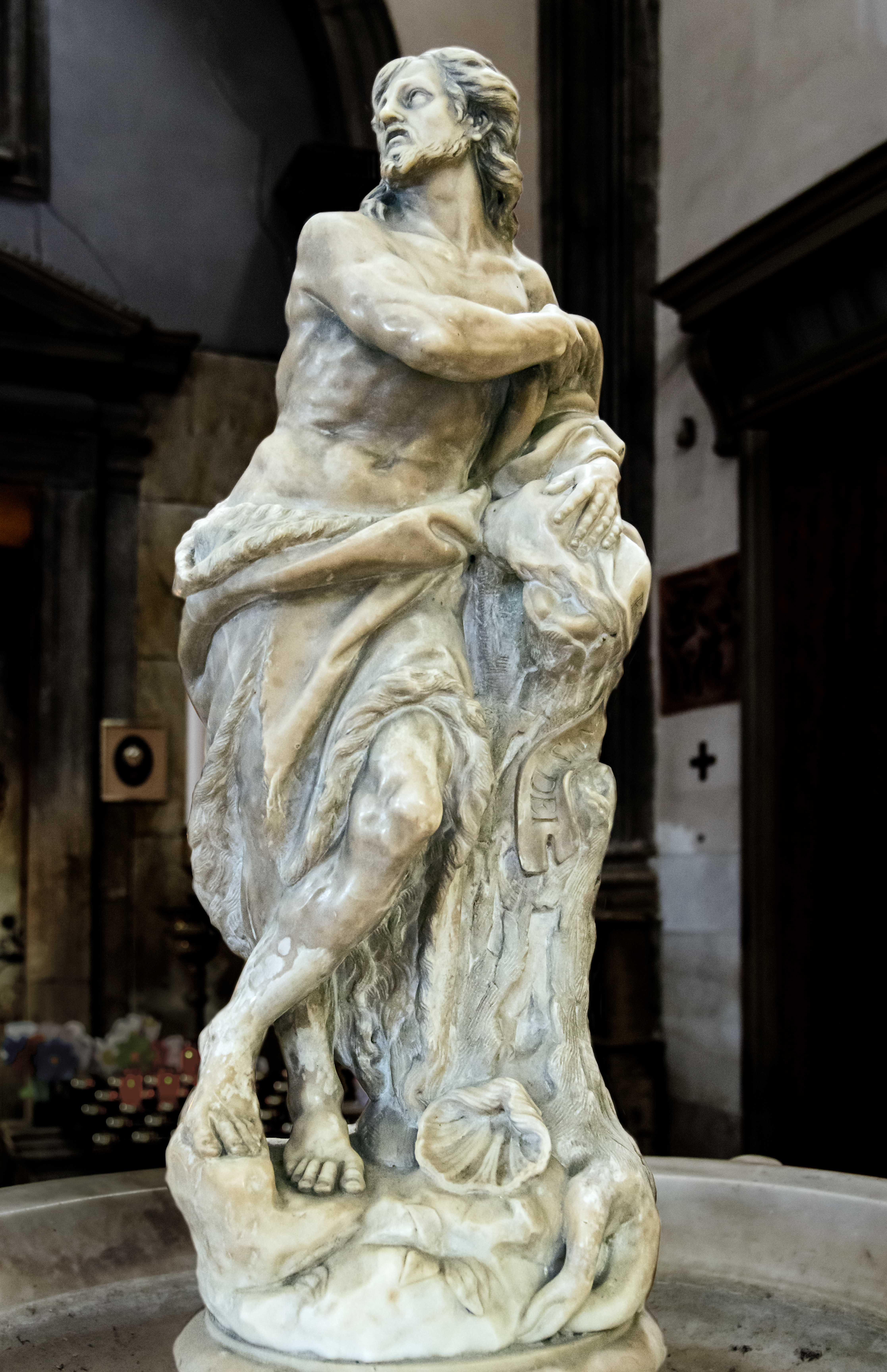 Church of Santi Apostoli, Venice. Statue Stoup of John the Baptist by Giacomo Piazzetta 1698